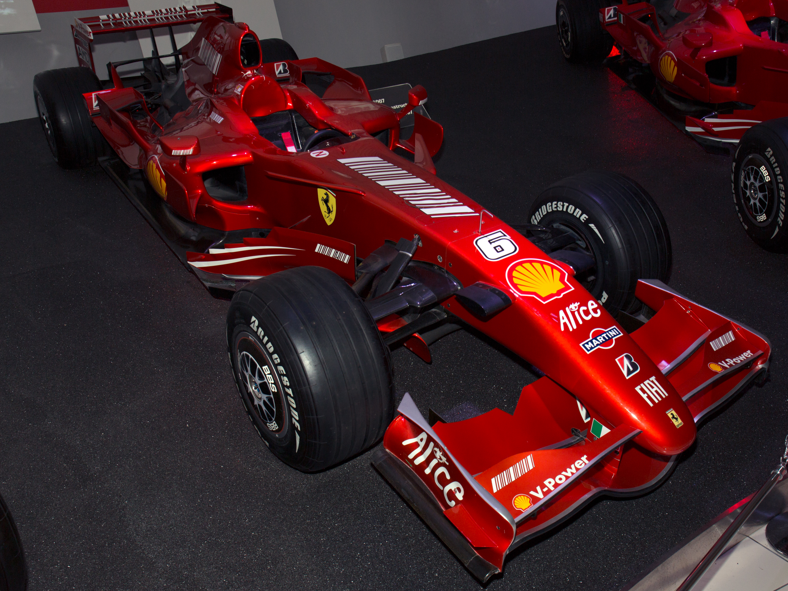 Ferrari F2007